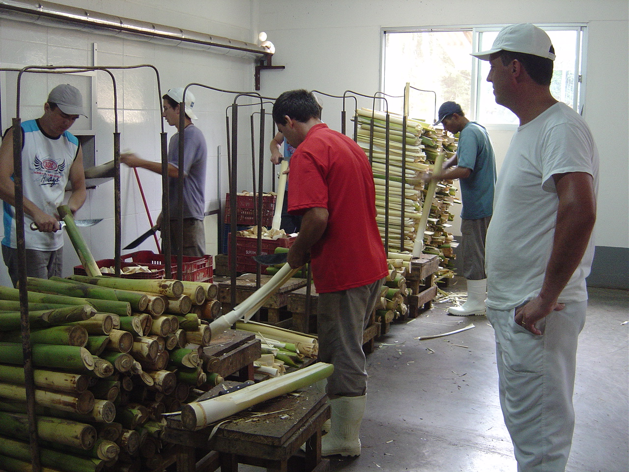 Heart of palm being prepared to be commercialized